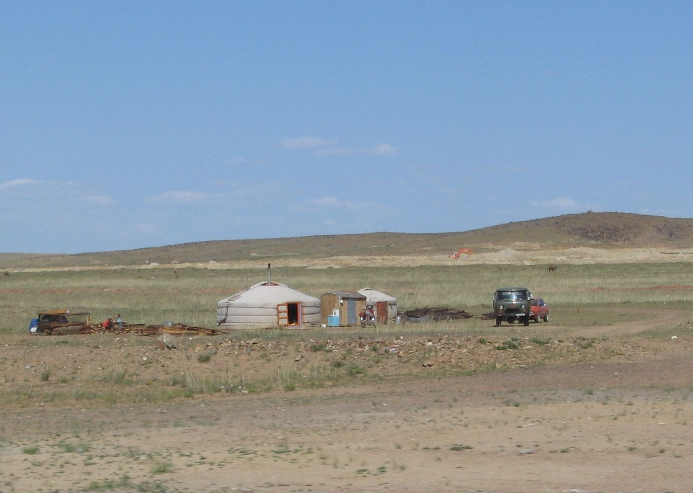 A yurt in the Gobi Desert in Mongolia.